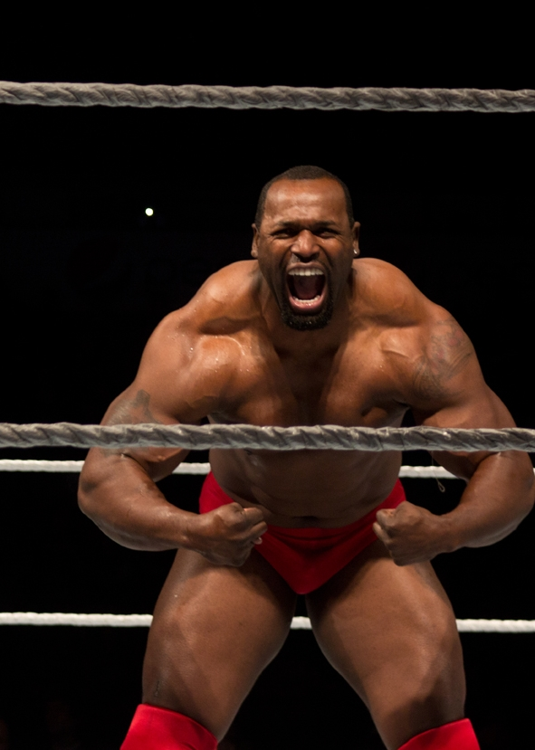 Ezekiel Jackson in 2012.